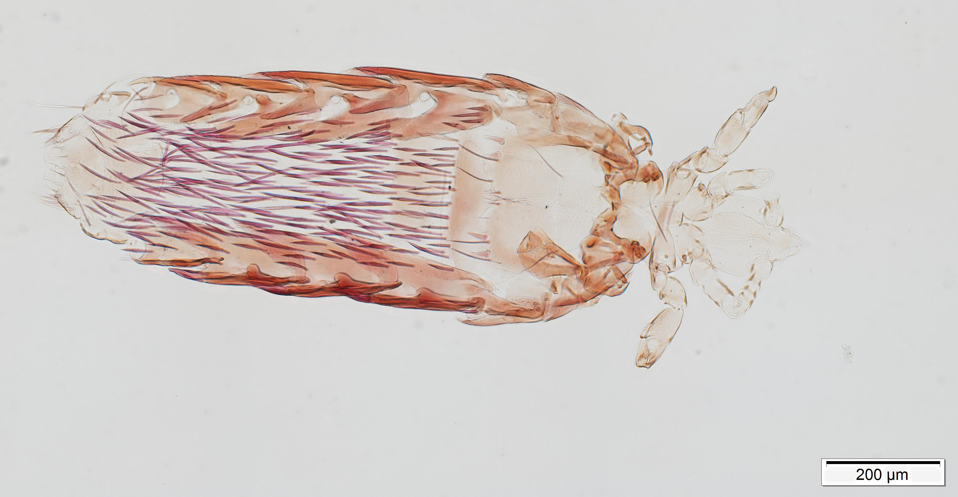 Schizophthirus pleurophaeus (Burmeister, 1839) (Anoplura: Hoplopluridae), collected off a Hazel Dormouse, Muscardinus avellanarius (Linnaeus, 1758) in Wolfsheim, Germany.